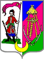 The Coat of Arms of the Kuban People's Republic.